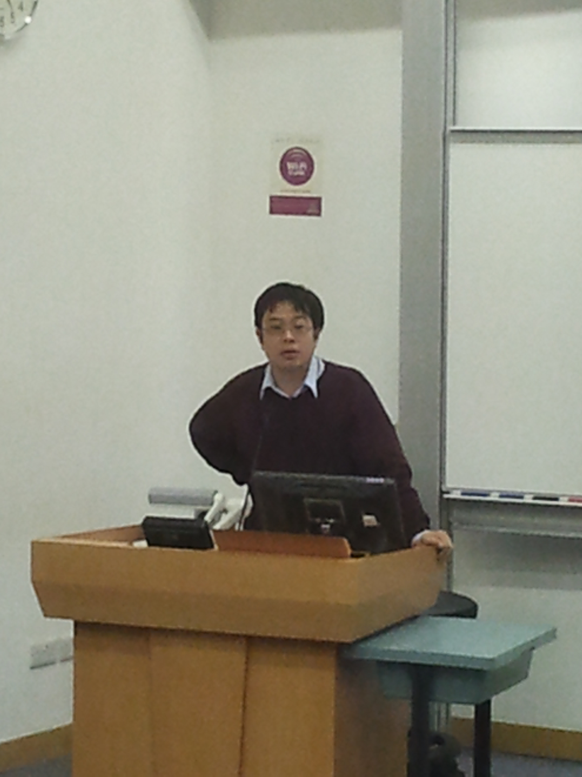 Ming-sho Ho in CUHK